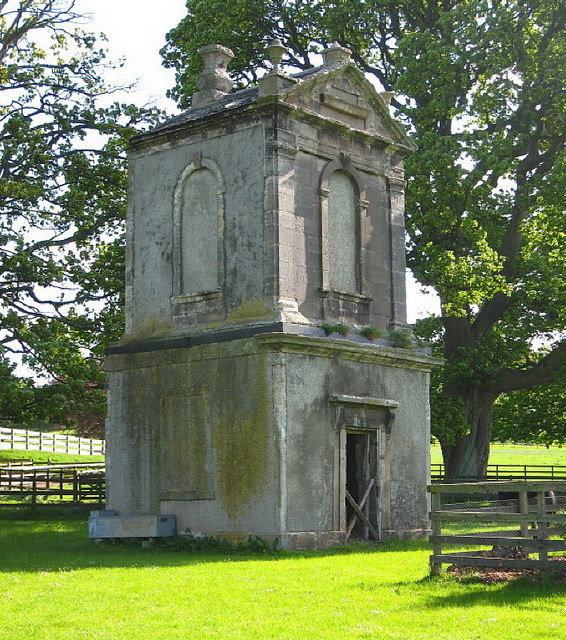 Huntington Doocot. Two-stage classical square dovecot, c 1750, at Huntington House. It is thought to be overlying a chapel connected with the nunnery at Haddington.